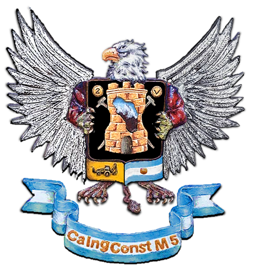 Escudo Oficial Compañía de Ingenieros de Construcciones de Montaña 5